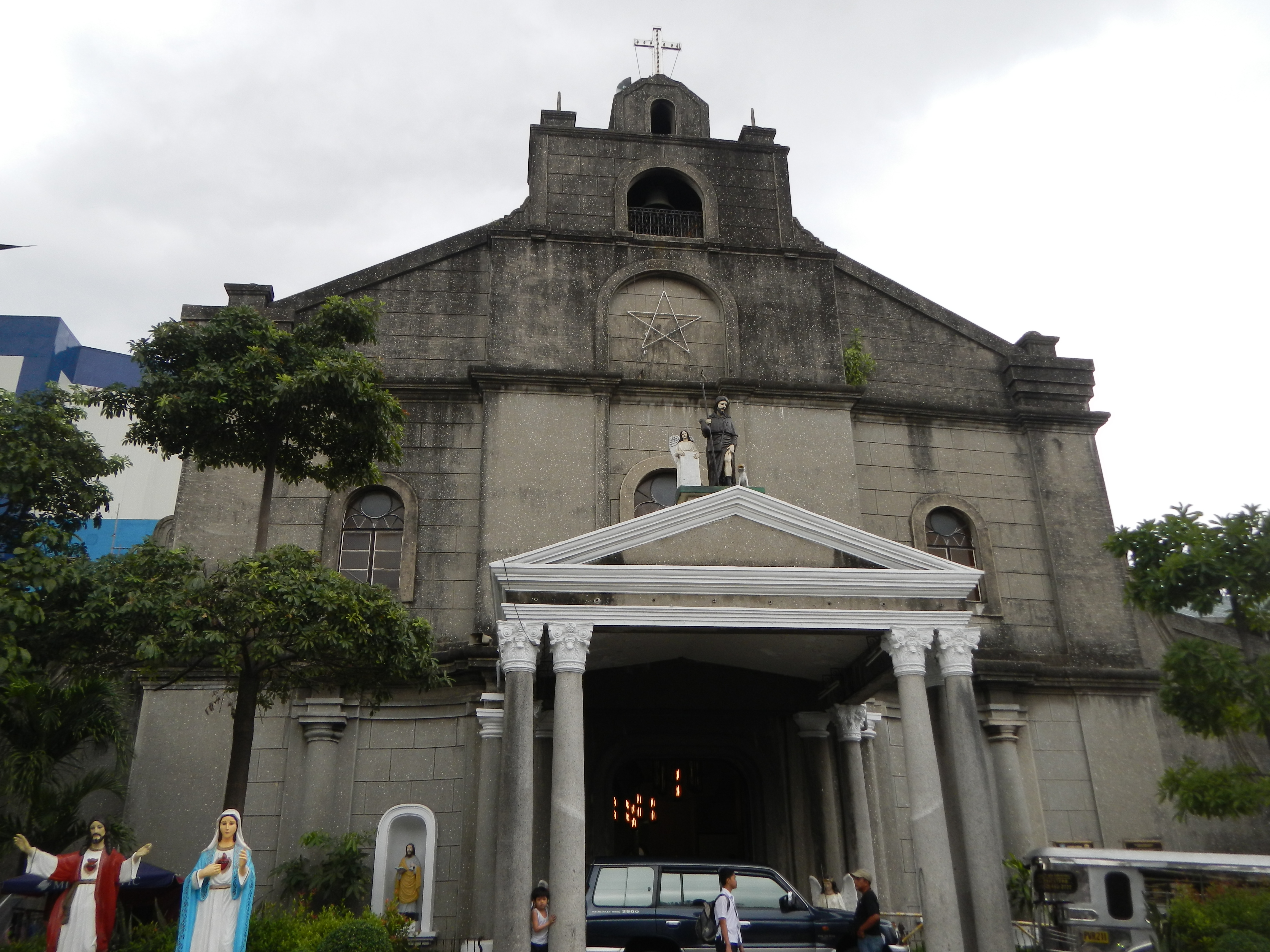 1815 Caloocan Cathedral[1] [2]San Roque Cathedral, A. Mabini St., Caloocan City The Kalookan Cathedral known canonically as San Roque Cathedral, is the cathedral of the Roman Catholic Diocese of Kalookan, and is located near the intersection of 10th Avenue and A. Mabini Street, in Caloocan City, Philippines. The church is beside La Consolacion College, and in the far front of the church is the City Hall of Caloocan.[3](1815 - APRIL 8 2015) [4]Roman Catholic Diocese of Kalookan Vicariate of San Roque The present Apostolic Administrator is Bishop Francisco M. De Leon, D.D., former rector was the Most Reverend Deogracias S. Iñiguez, Jr., DD., who also served as the bishop of the diocese. parochial vicar is the 'Reverend Elpidio "Jun" Erlano, Jr. Monsignor Boanerges "Ben" A. Lechuga was the preceding previous parish priest, who served from 1980 to 2008.[5][6]